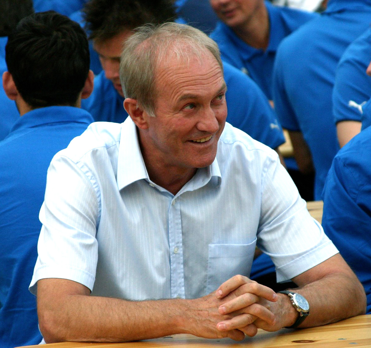 Franciszek Smuda